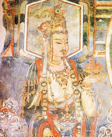 Kin Dynasty (1115-1234) fresco in the Temple of Adoring Bliss (Ch'ung-fu Temple), Shuo-chou, Shansi.